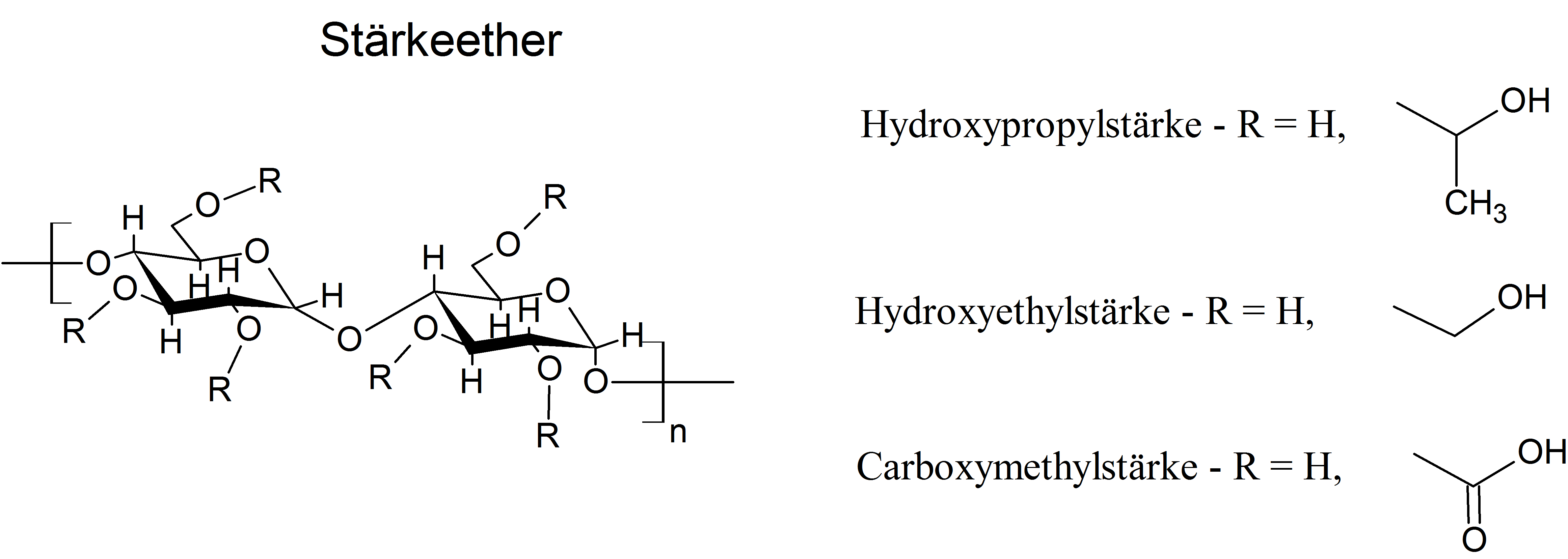 Starch ethers